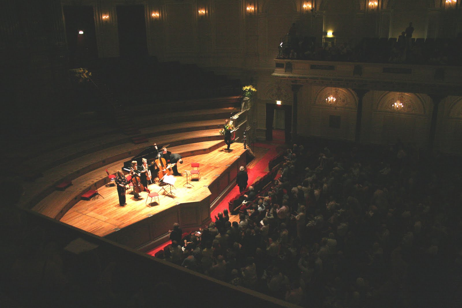 A Quintet concert at Concertgebouw, Amsterdam, 14 July 2010 (Photo by Persian Dutch Network) کنسرت یک کوینتت در کنسرت‌خباو، آمستردام، 14 ژوییه 2010 - عکس از شبکه ایرانیان هلند